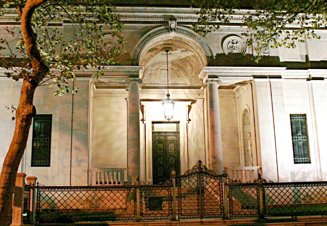 Photograph of the Pierpont Morgan Library in Manhattan, New York, USA at night